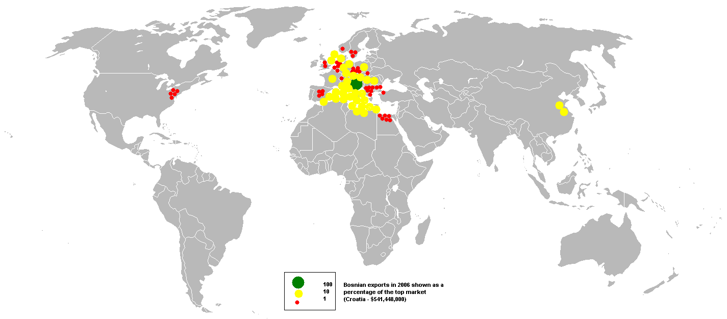 This bubble map shows the global distribution of Bosnian exports in 2006 as a percentage of the top market (Croatia - $541,448,000). This map is consistent with incomplete set of data too as long as the top producer is known. It resolves the accessibility issues faced by colour-coded maps that may not be properly rendered in old computer screens. Data was extracted on 28th September 2007 from Based on :Image:BlankMap-World.png